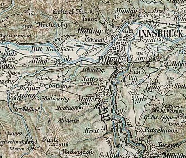 3rd Military Mapping Survey of Austria-Hungary - Bruneck; detail:Innsbruck NW